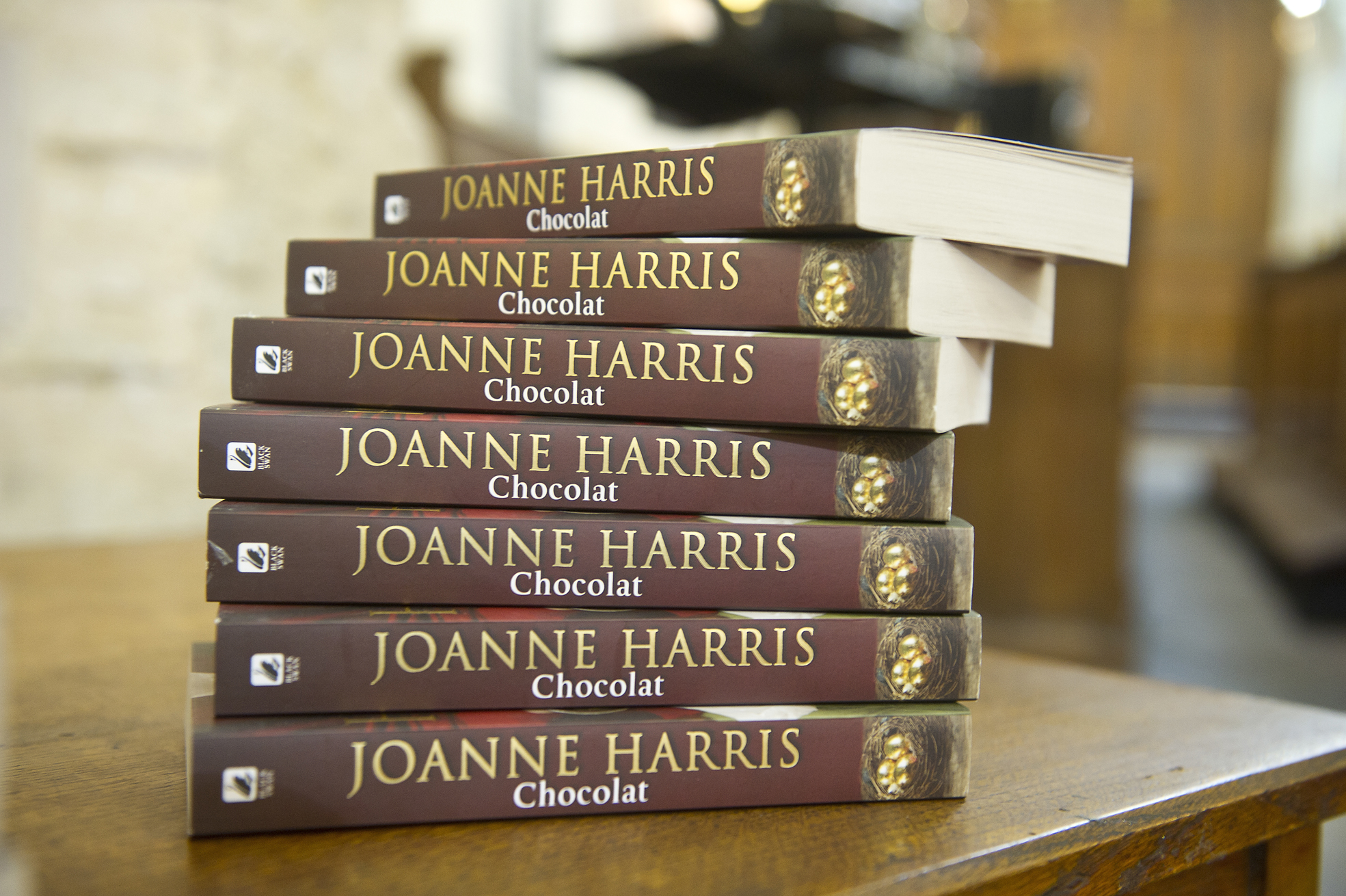 Copies of Joanne Harris' book 'Chocolat' at the King's Chapel during the Gibraltar International Literary Festival held in October 2013.